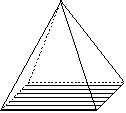 Mahlerite, figure drawn with OpenOffice 2.0